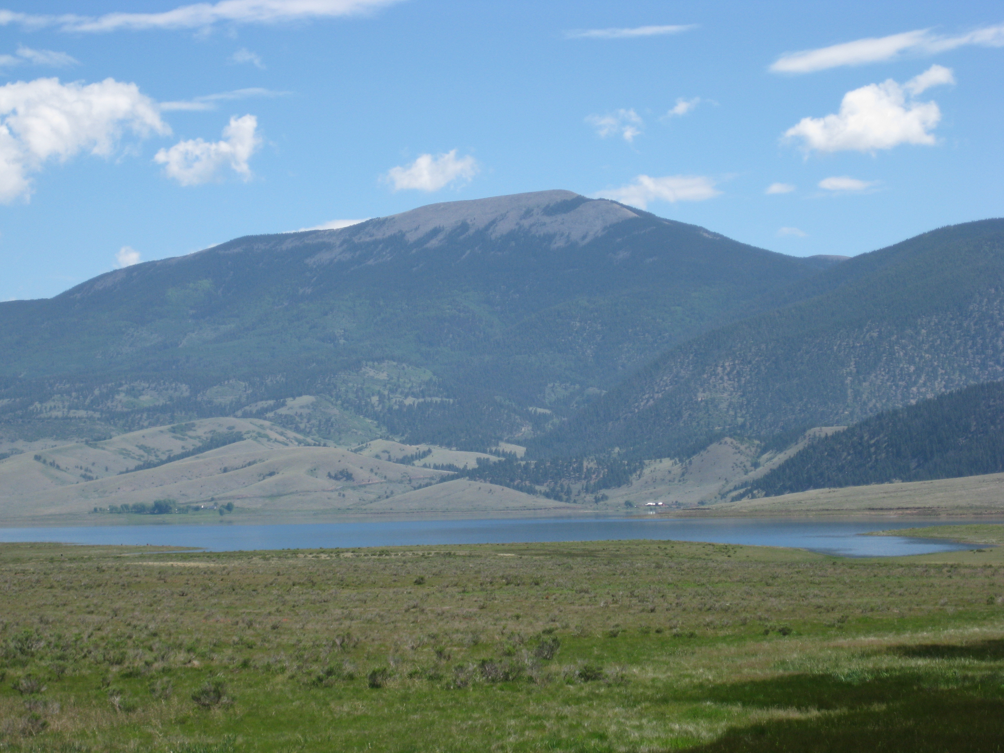 Eagle Nest Lake, New Mexico